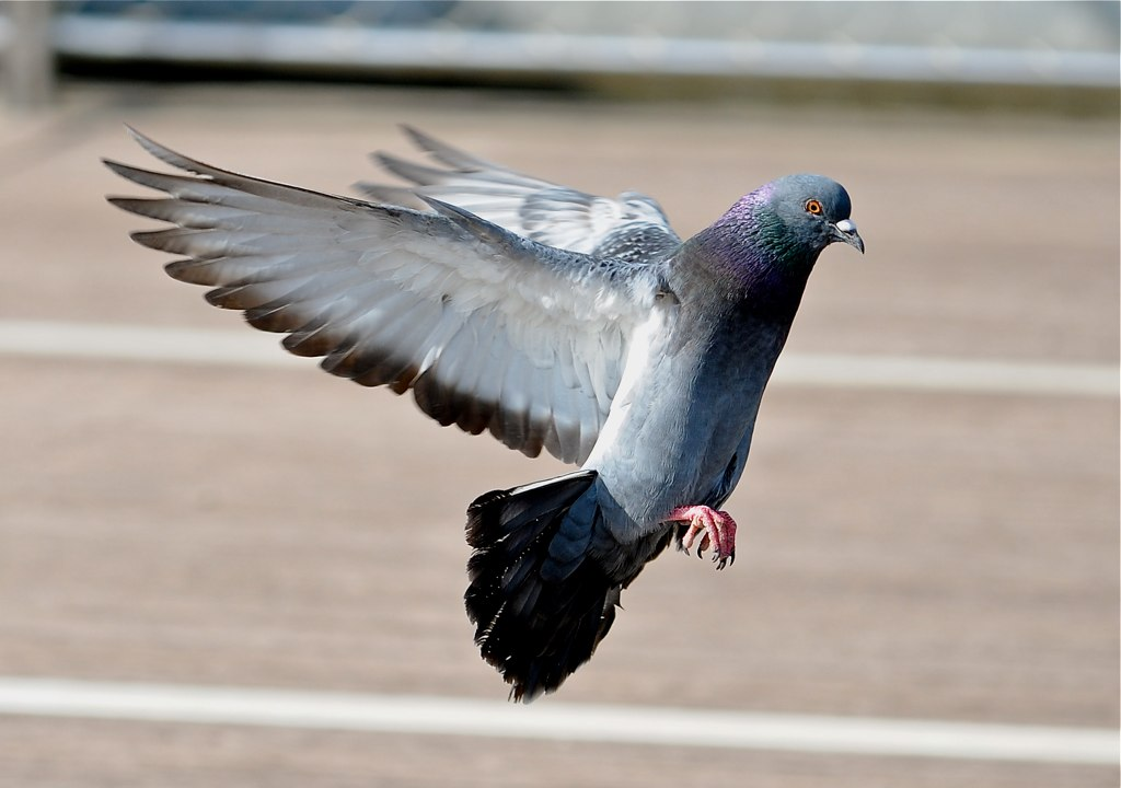 A feral pigeon about to land.